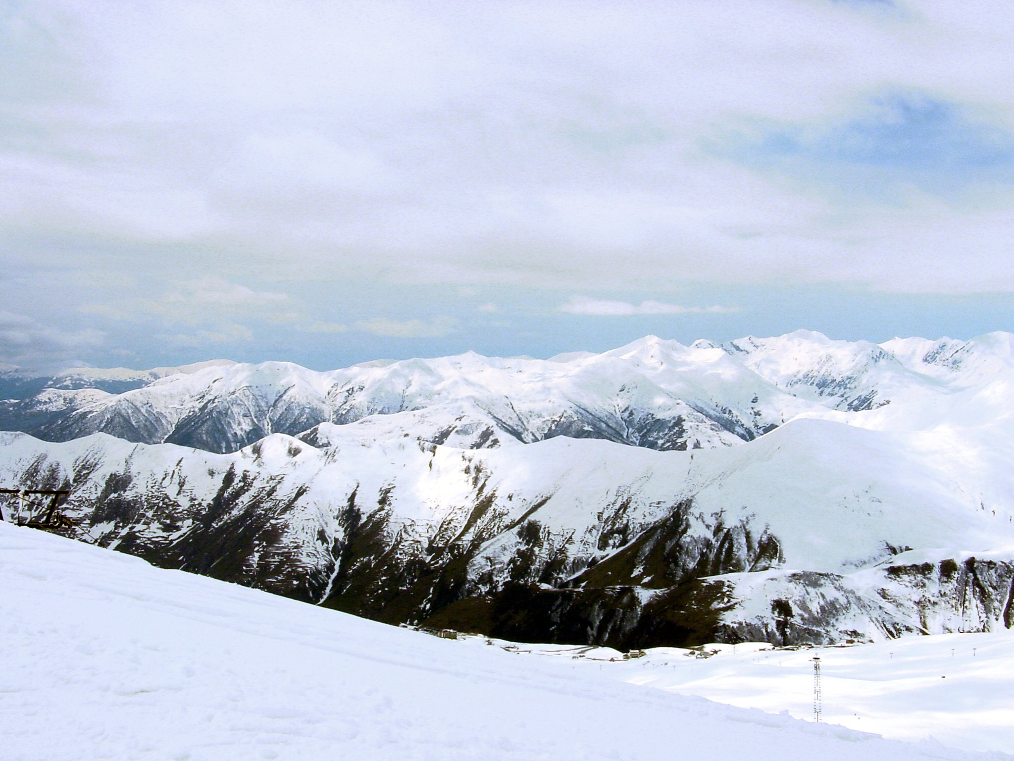 Caucasus mountains in Gudauri, Georgia. Snow Is Melting Away, Gudauri